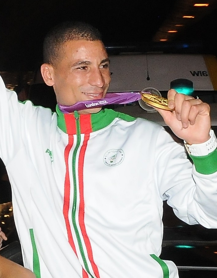 Taoufik Makhloufi 2012